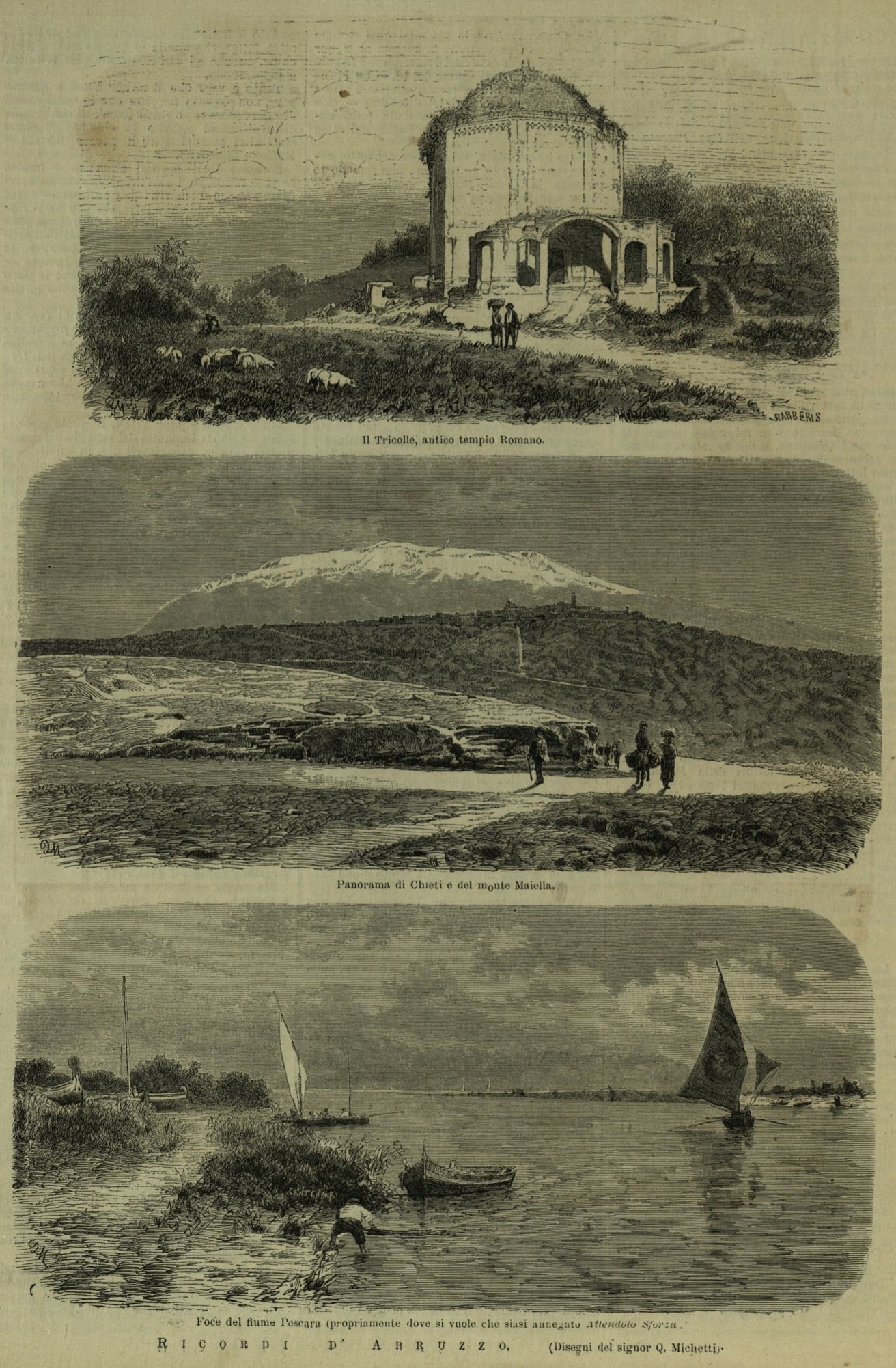 Three drawings from Abruzzo, seemingly made by "Q. Michetti". Might also be Francesco Paolo Michetti, but you expect the publication to know the names of its illustrators. Top is the church of Santa Maria del Tricalle (here called Tricolle) in Chieti, then a view of Chieti and the Maiella mountains and bottom a view of the Pescara river. The illustrations were published in the December 9, 1877 issue of L'Illustrazione Italiana, on page 368, with an article about Chieti and its surroundings on page 371 by professor Pietro Saraceni, titled Chieti, Il Tricalle e la Pescara.